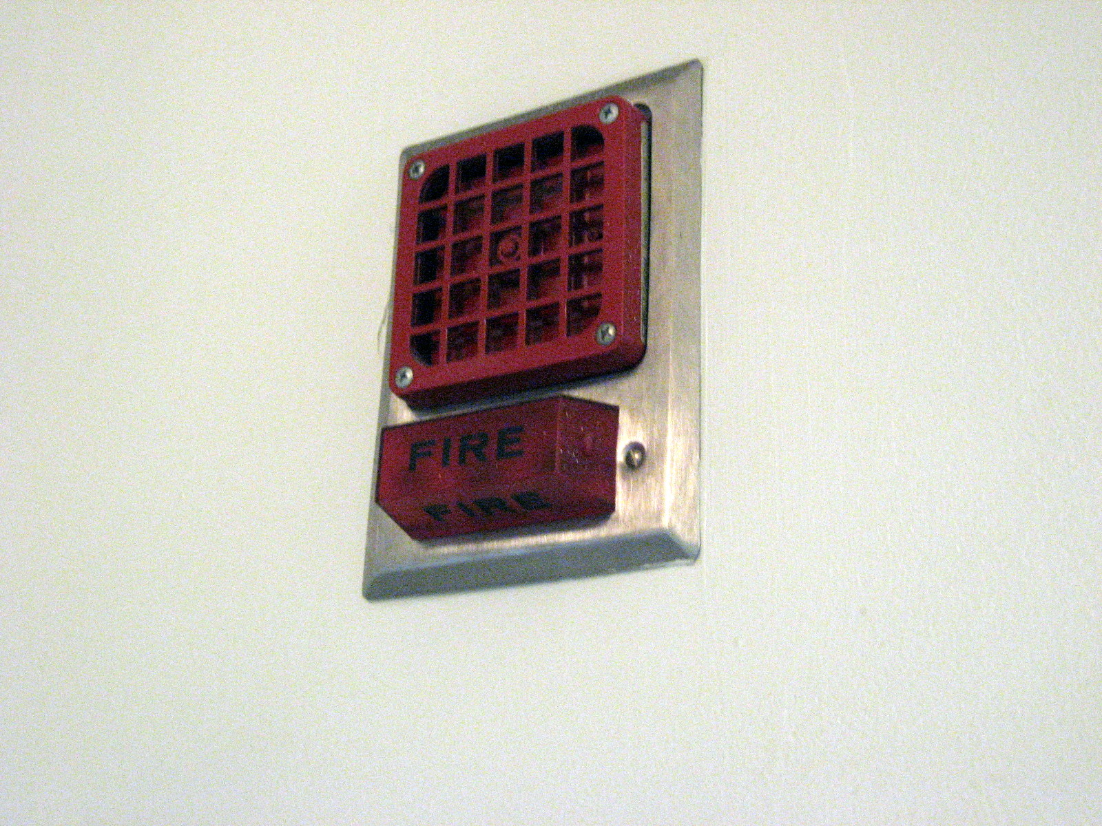 Simplex 4051 horn on 4050-85 light plate in Boyden Hall at Bridgewater State College, Bridgewater MA